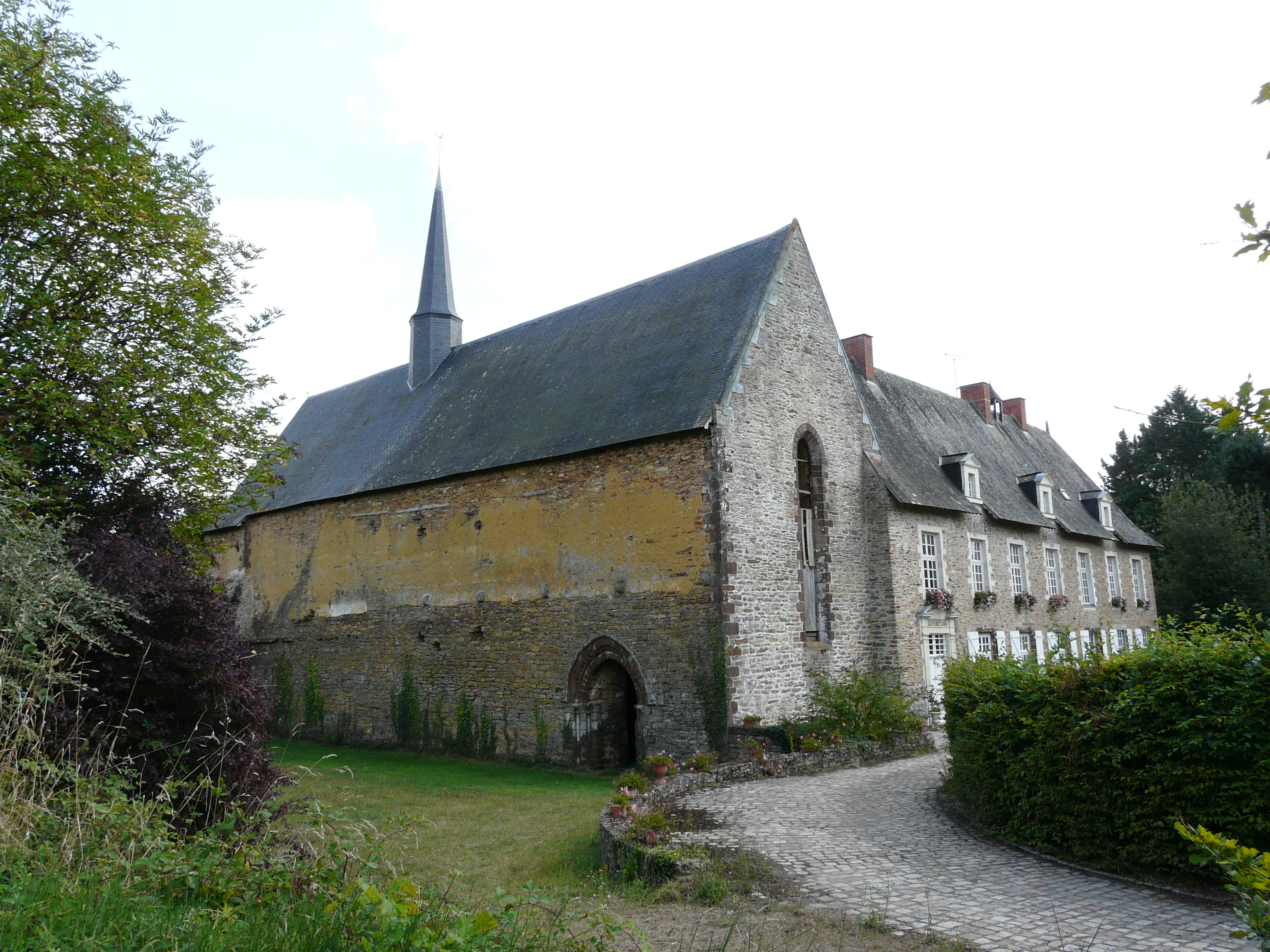 La Primaudière (chapelle et logis)